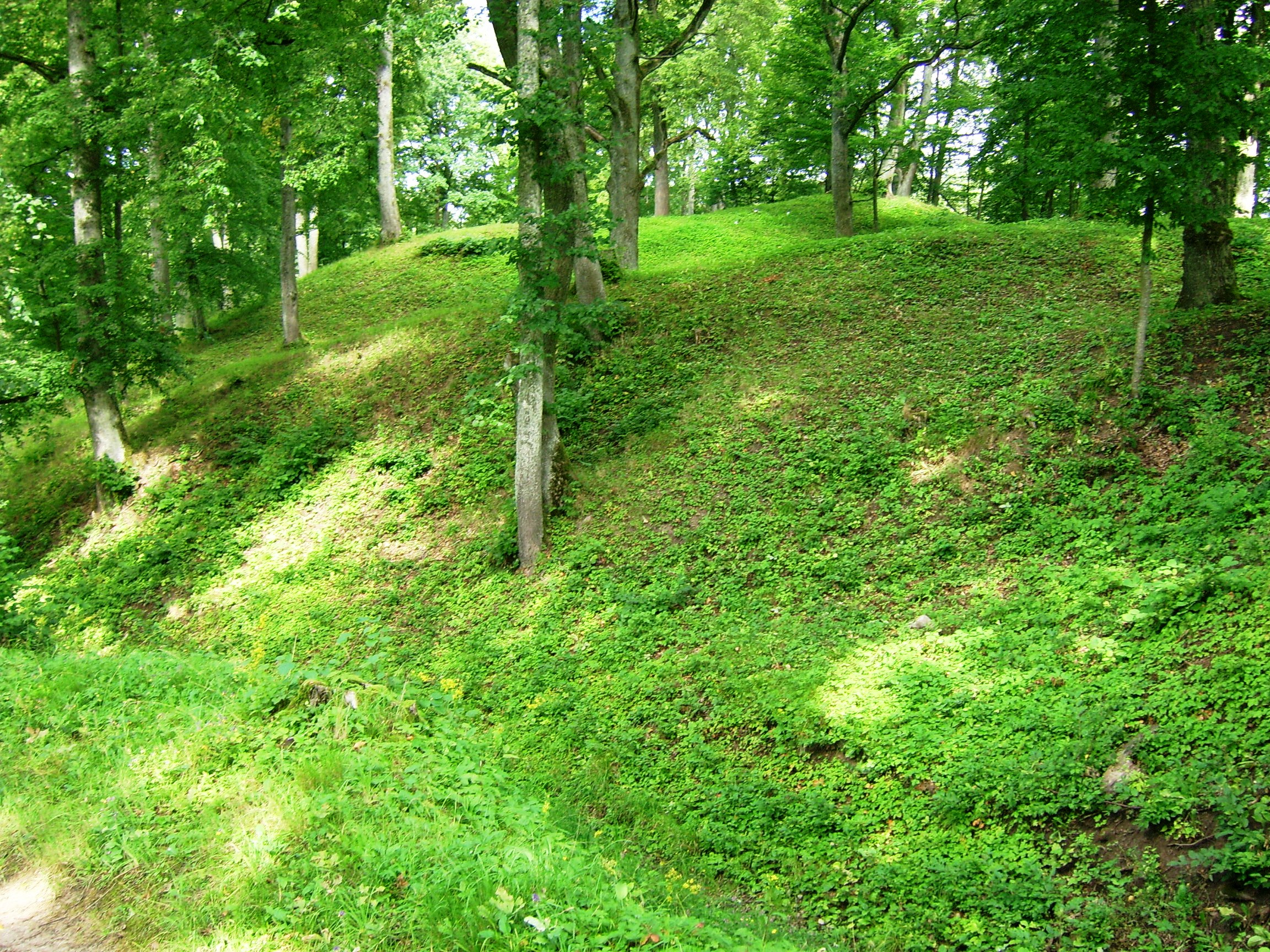 Hill fort in Eržvilkas